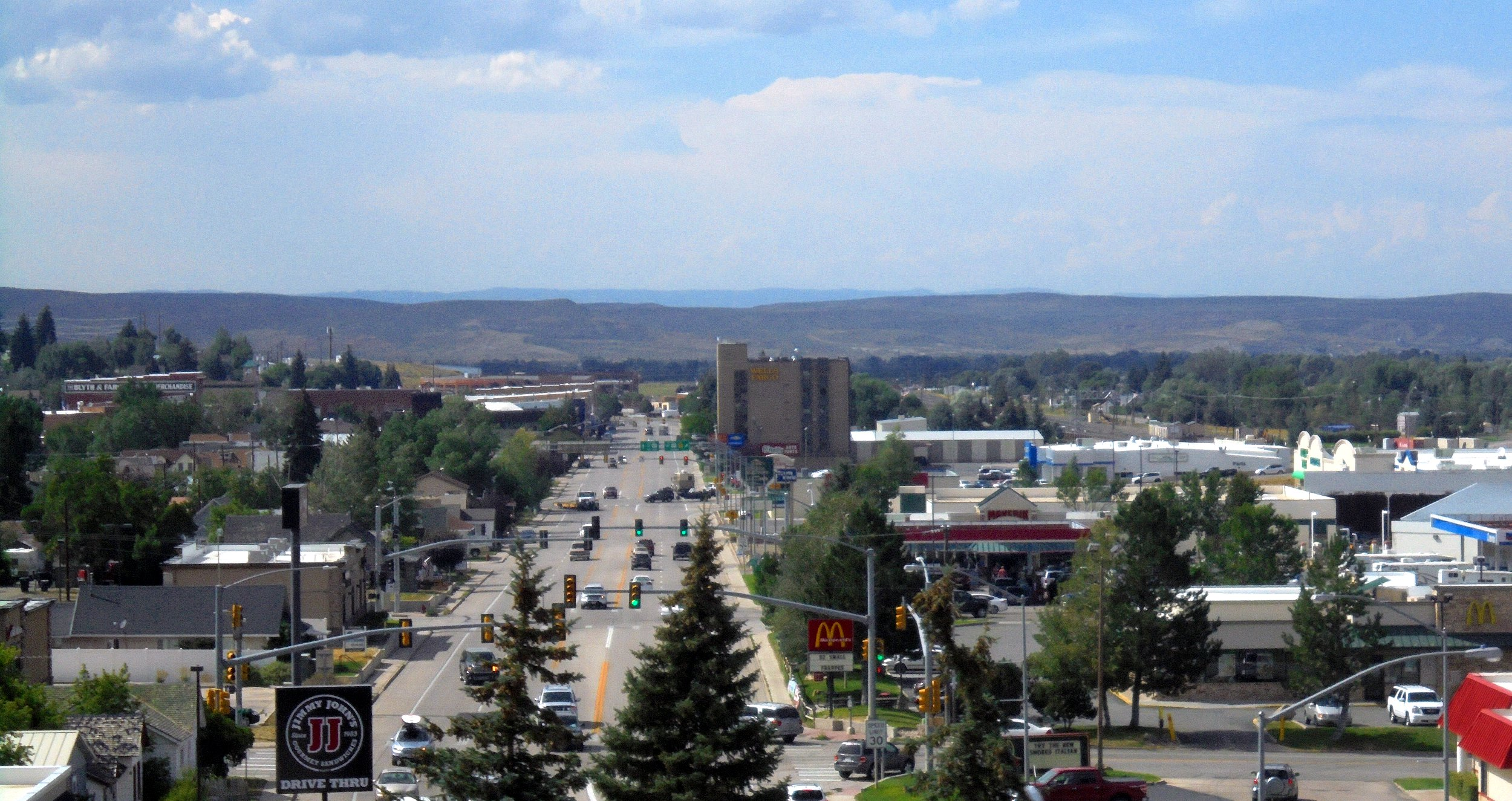 Downtown Evanston along Front Street, looking north from I-80